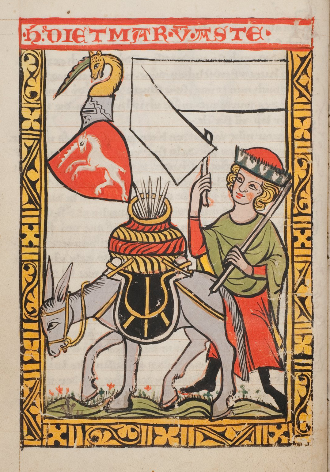 Picture of the minstrel Dietmar von Aste (or von Aist) from the Konstanz-Weingartner Liederhandschrift